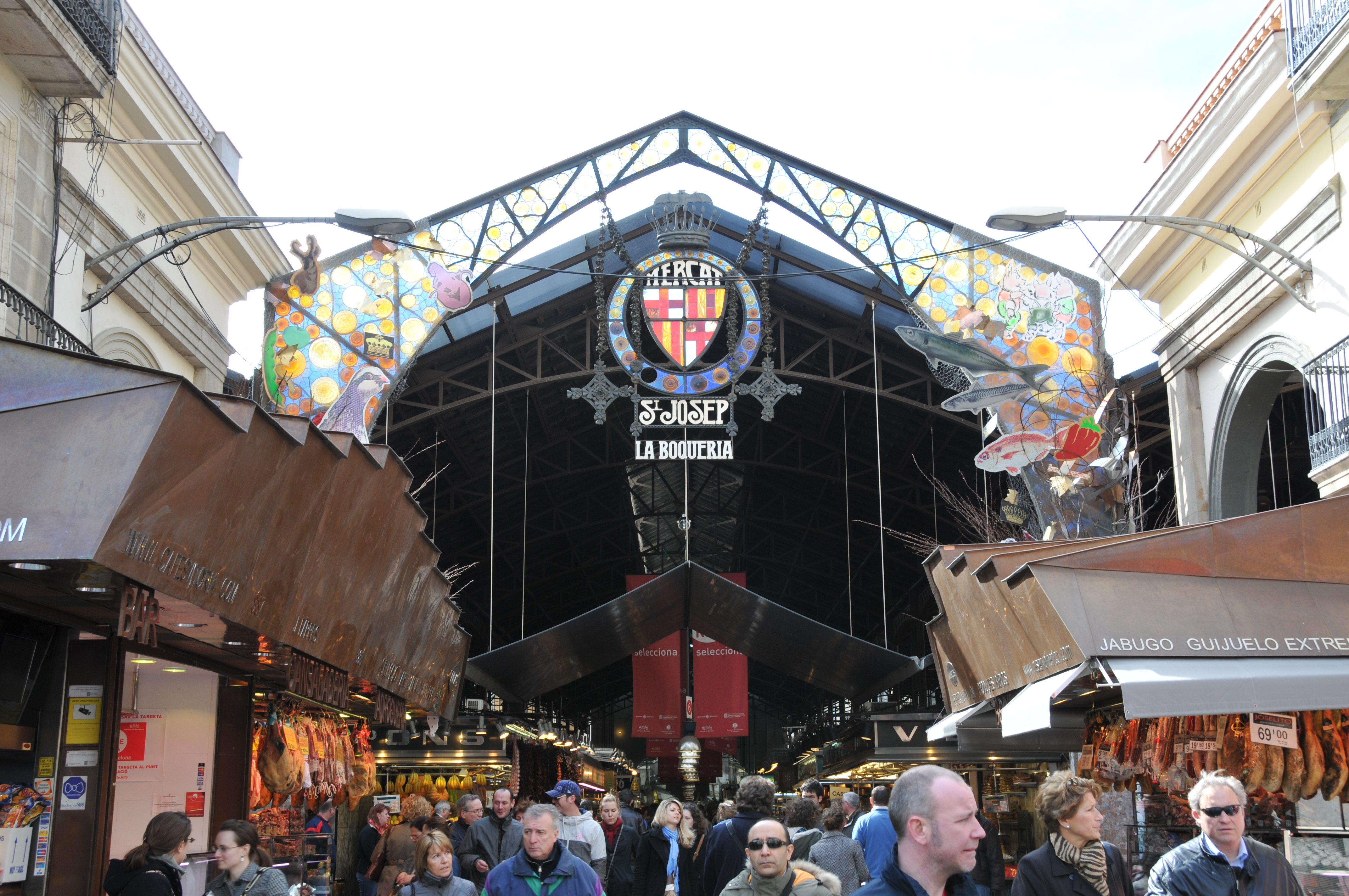 St. Joseph Market on La Rambla